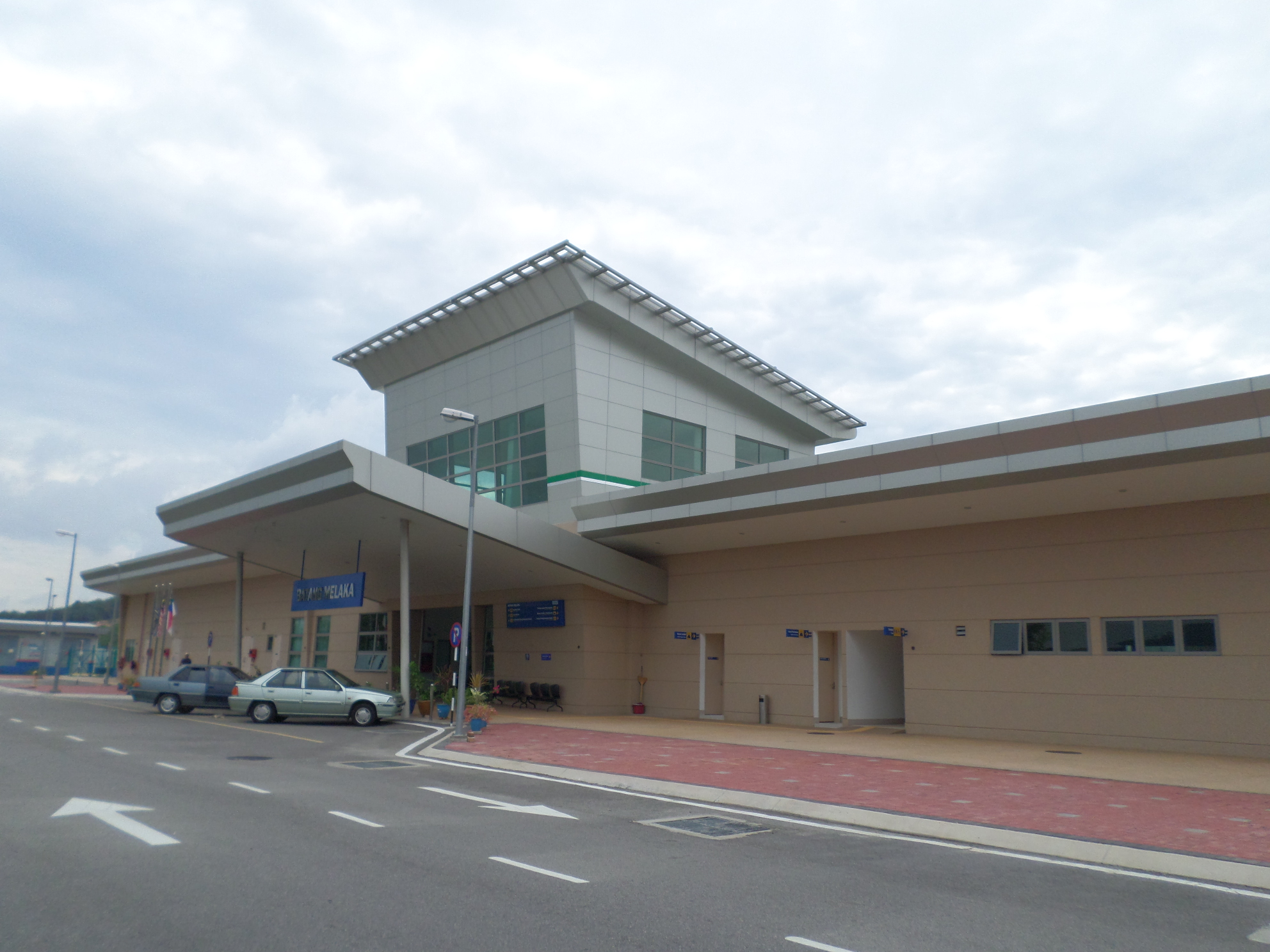 Batang Melaka Railway Station, Batang Melaka, Jasin, Melaka, MalaysiaBahasa Melayu: Stesen Keretapi Batang Melaka, Batang Melaka, Jasin, Melaka, Malaysia